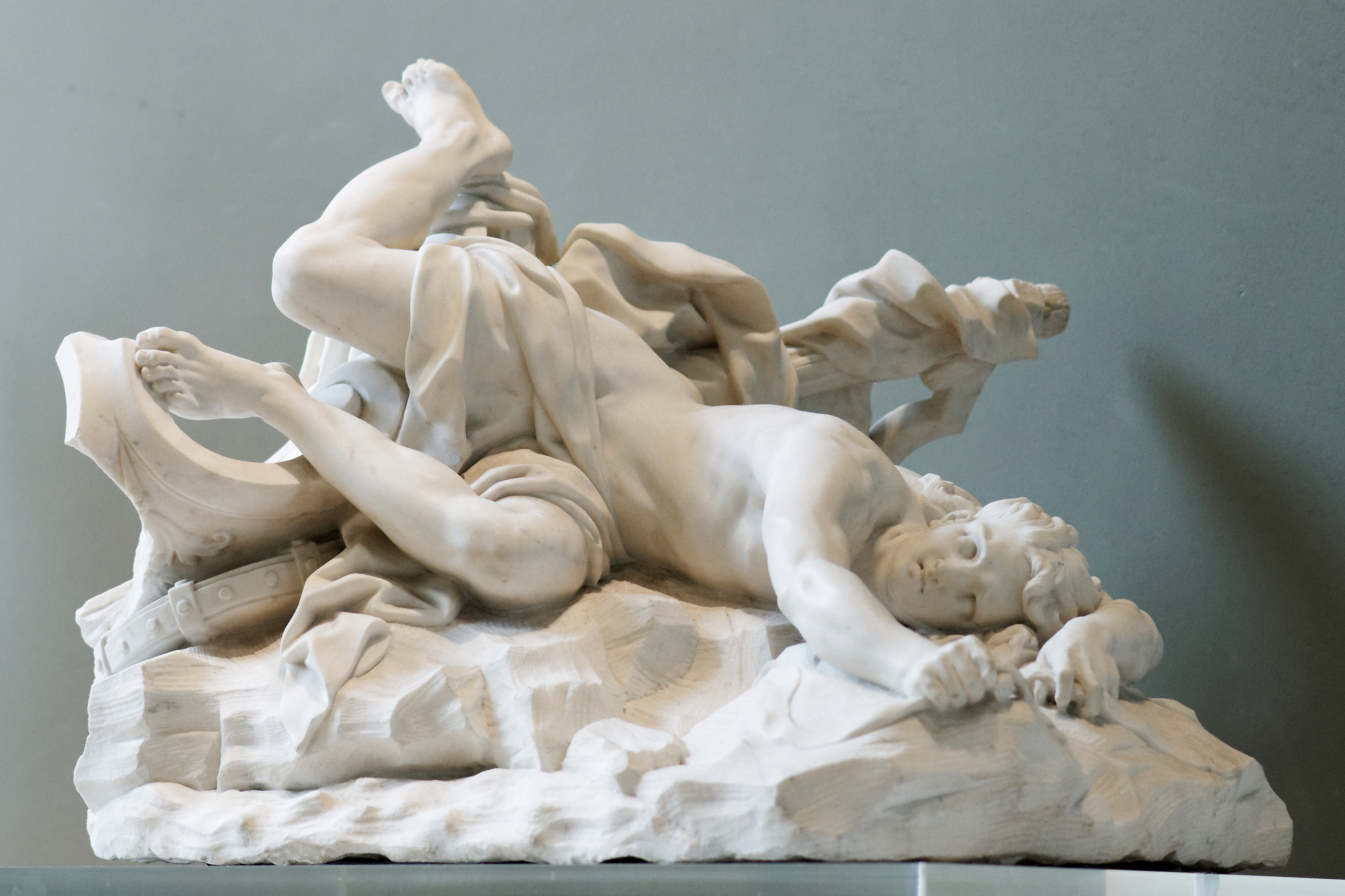 Reception piece for the French Royal Academy.